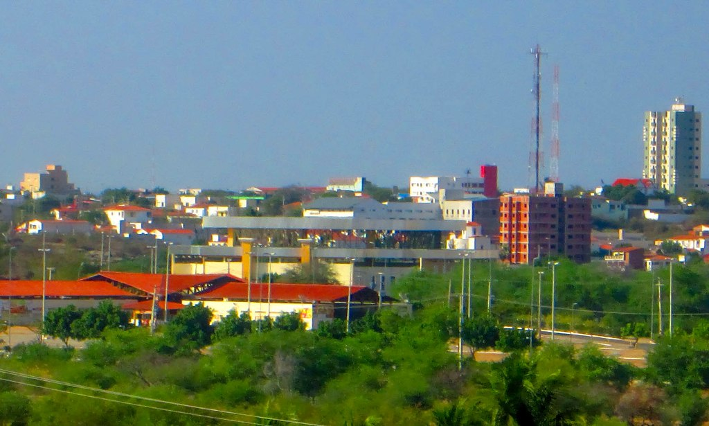 Ginásio de Esportes.